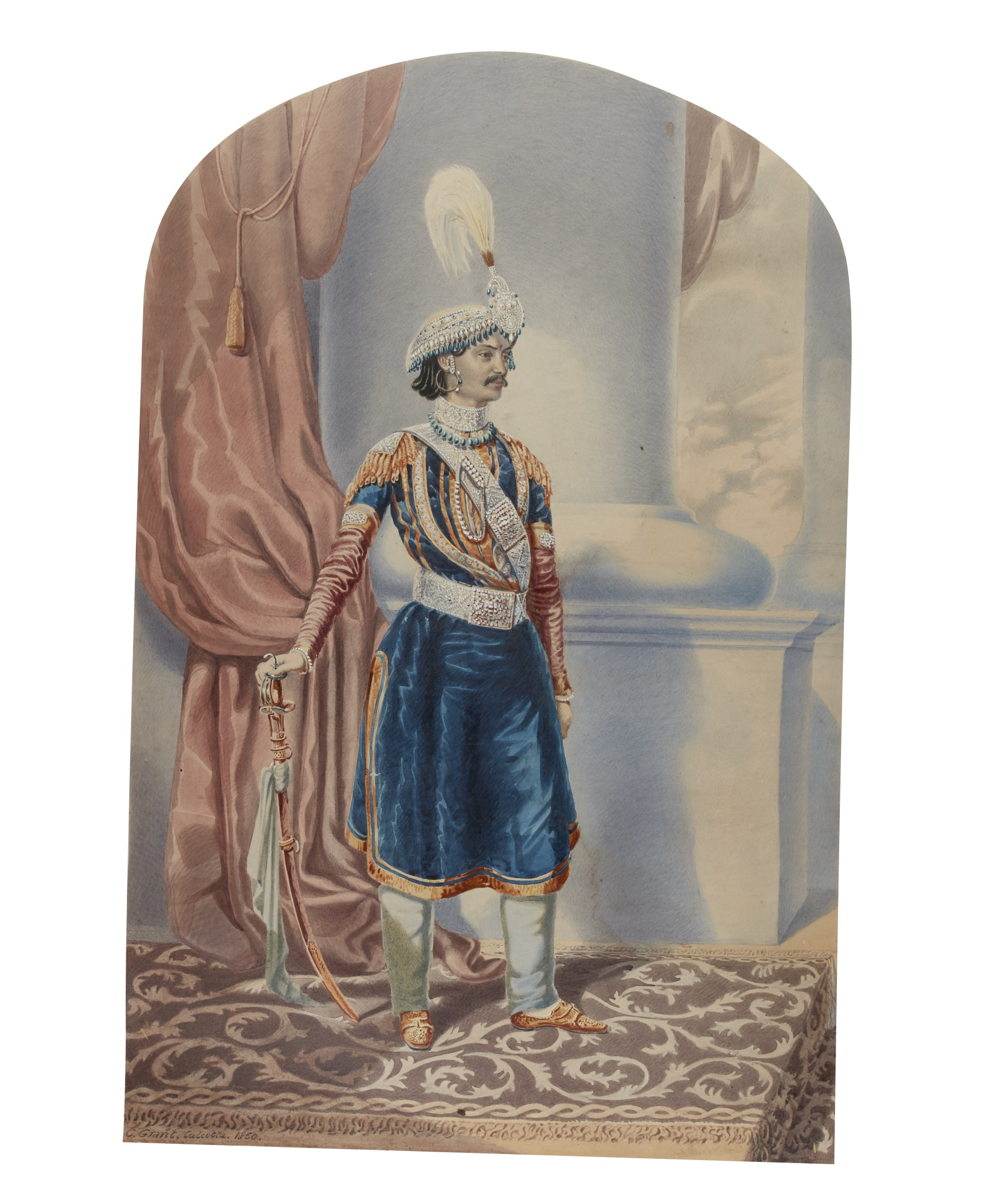 A watercolour over pencil portrait (heightened with bodycolour and gum arabic) of the Prime Minister and Commander-in-Chief of Nepal, Sir Jang Bahadur Kunwar Rana. Signed lower left: C. Grant. Calcutta. 1850. 665 by 453 mm; 26 by 18 in.